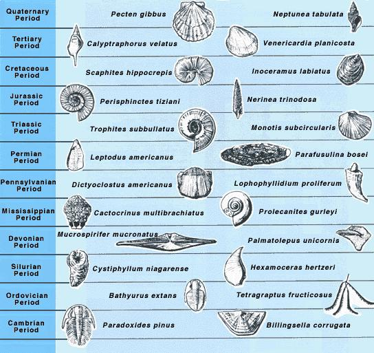 Index fossils.